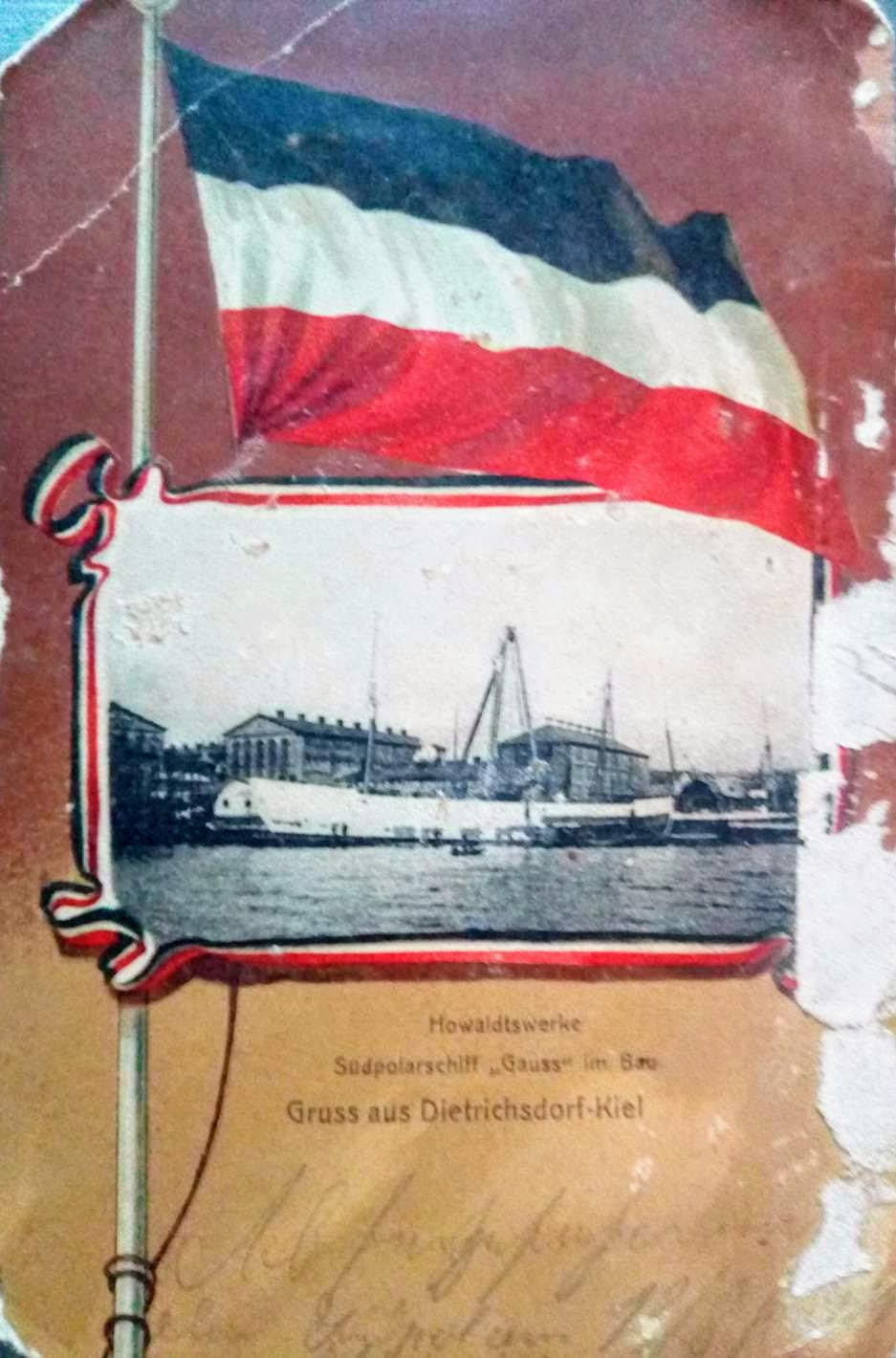 A postcard showing the construction of the Gauss ship